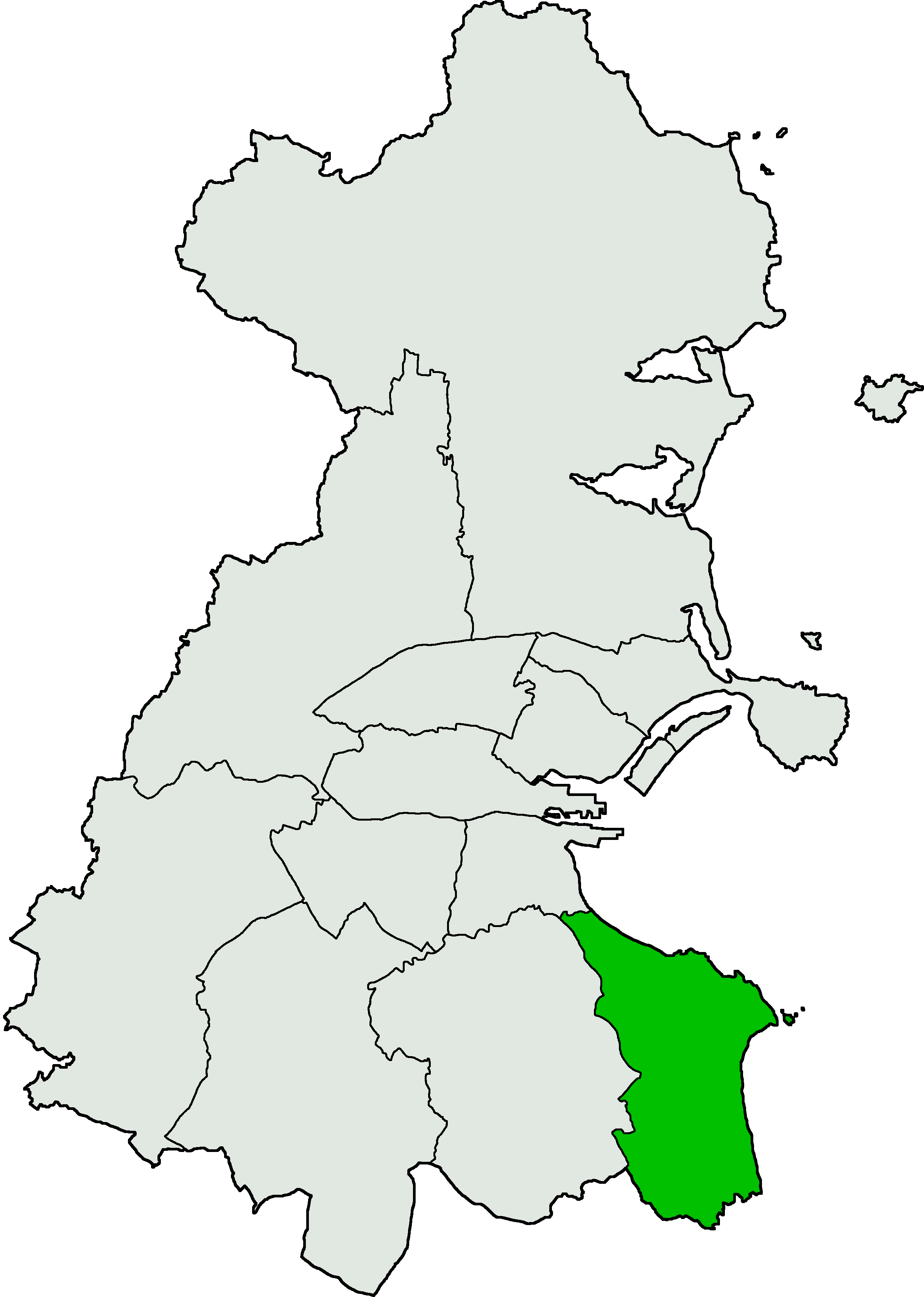 Category:Maps of Dublin